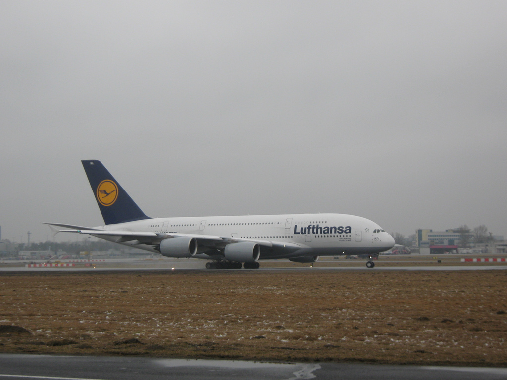 A380 at Frederic Chopin Airport - Warsaw.